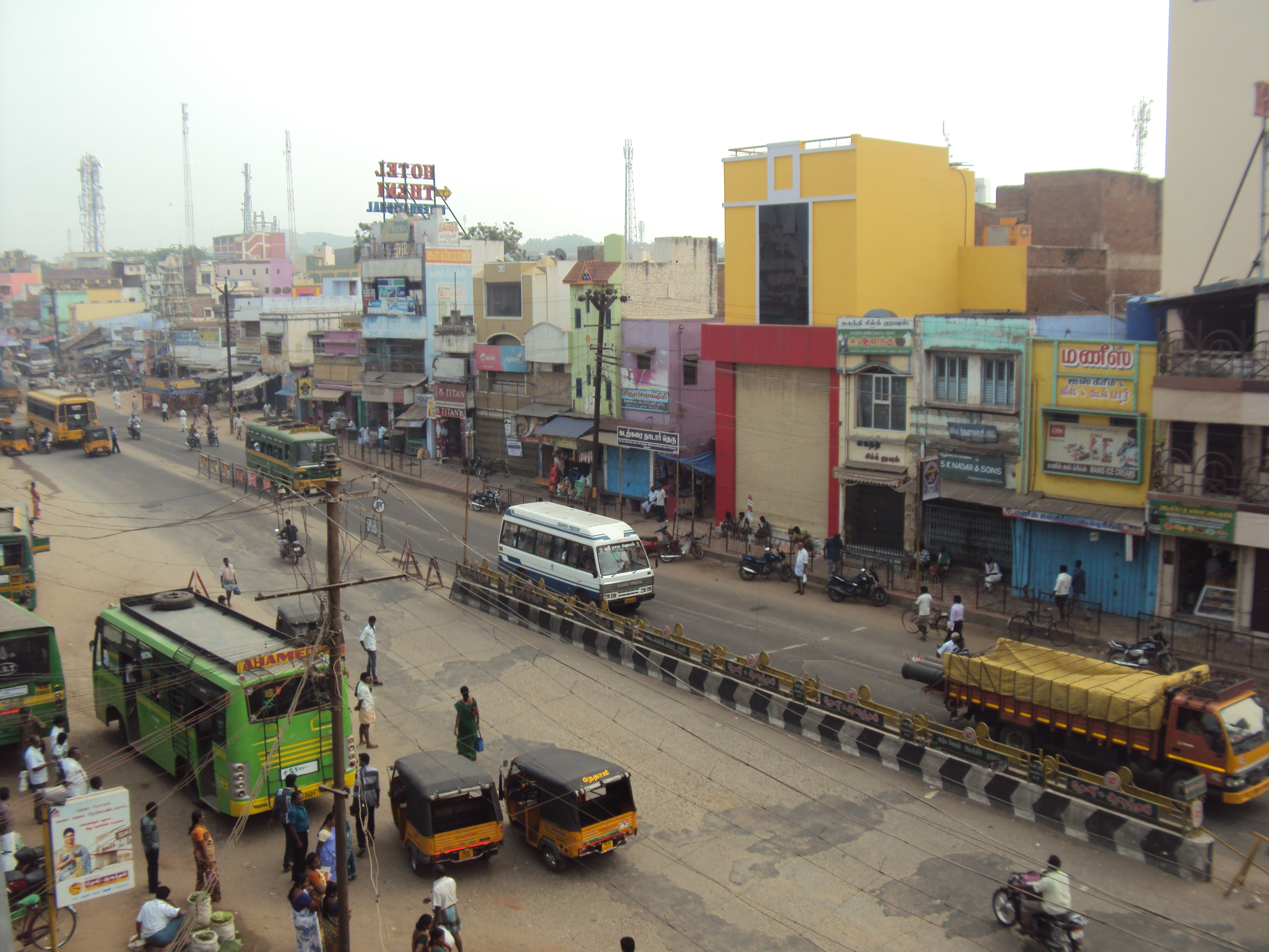 Theni Town